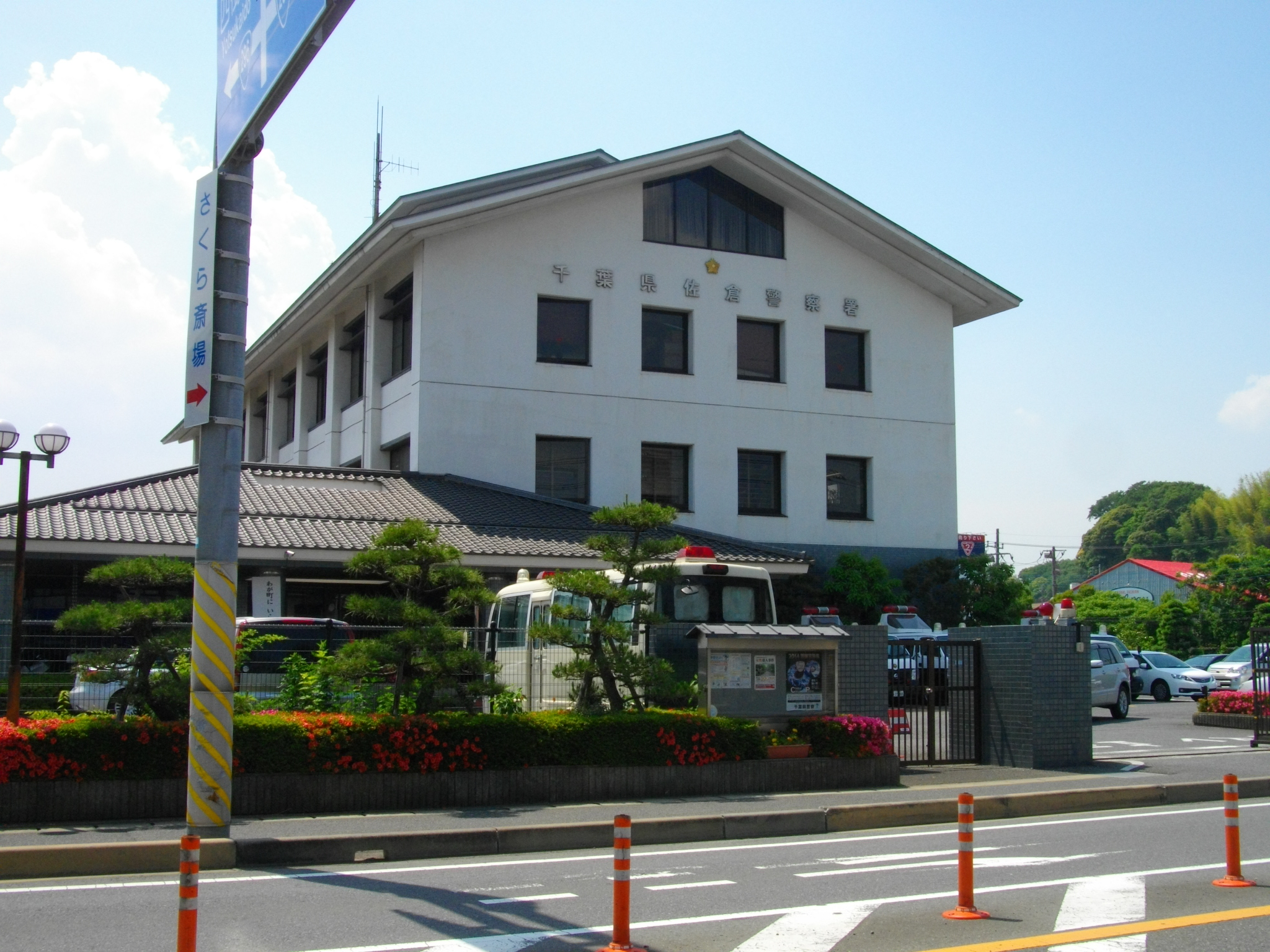 Sakura Police Station (Chiba)